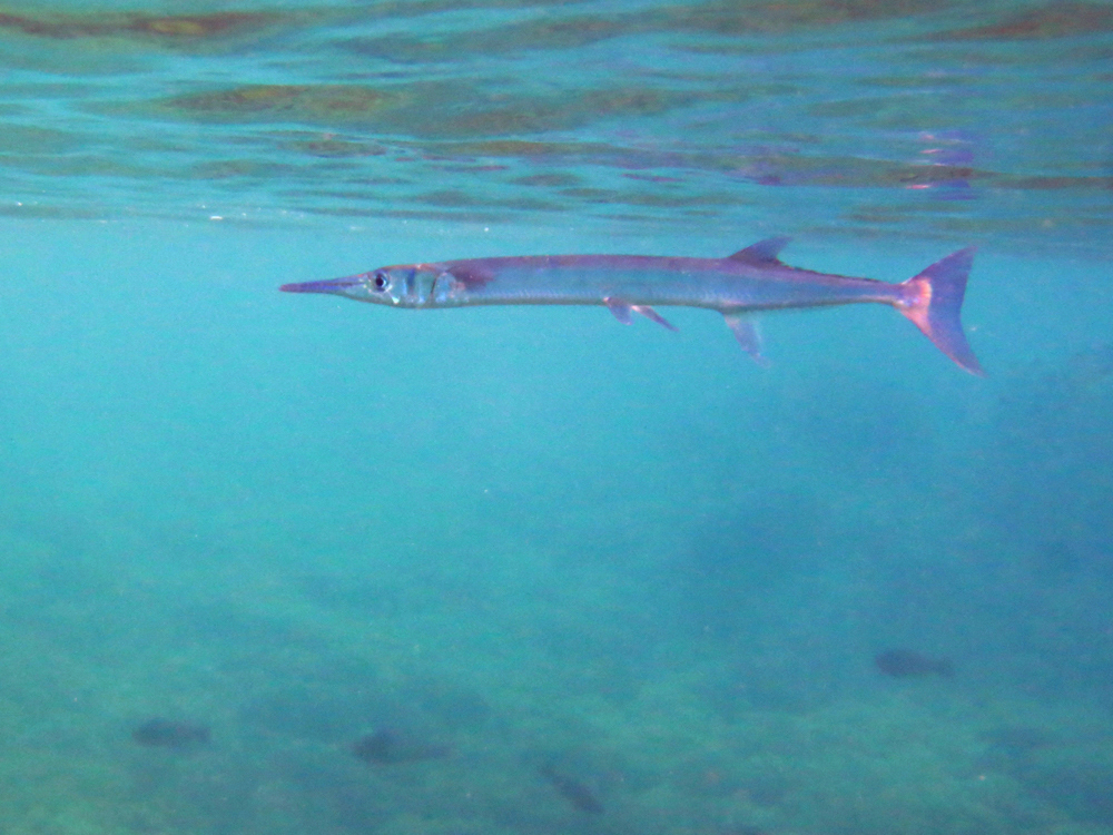 Mexican needlefish Tylosurus fodiator